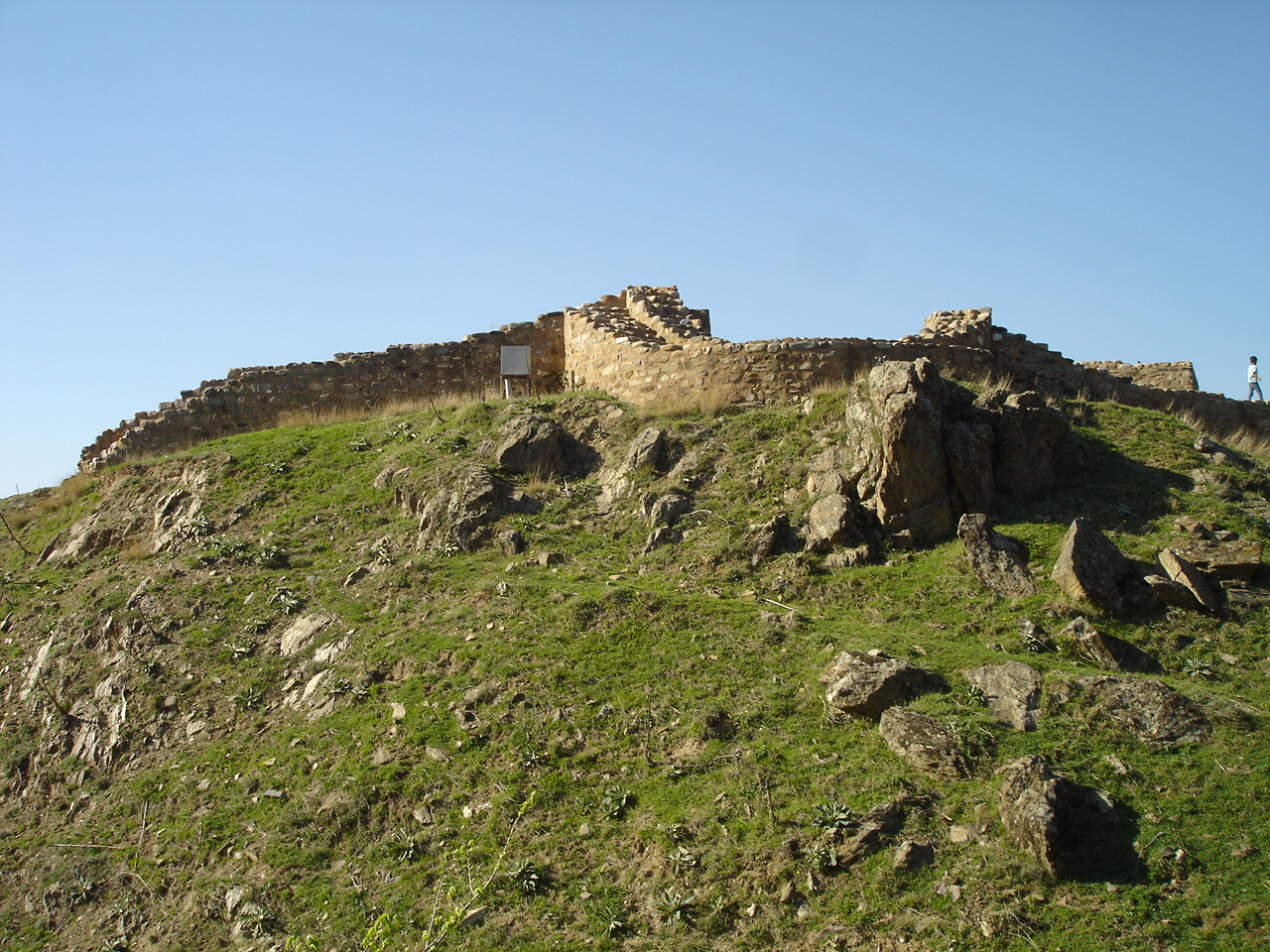 Ancient fortress in Vinica, Macedonia